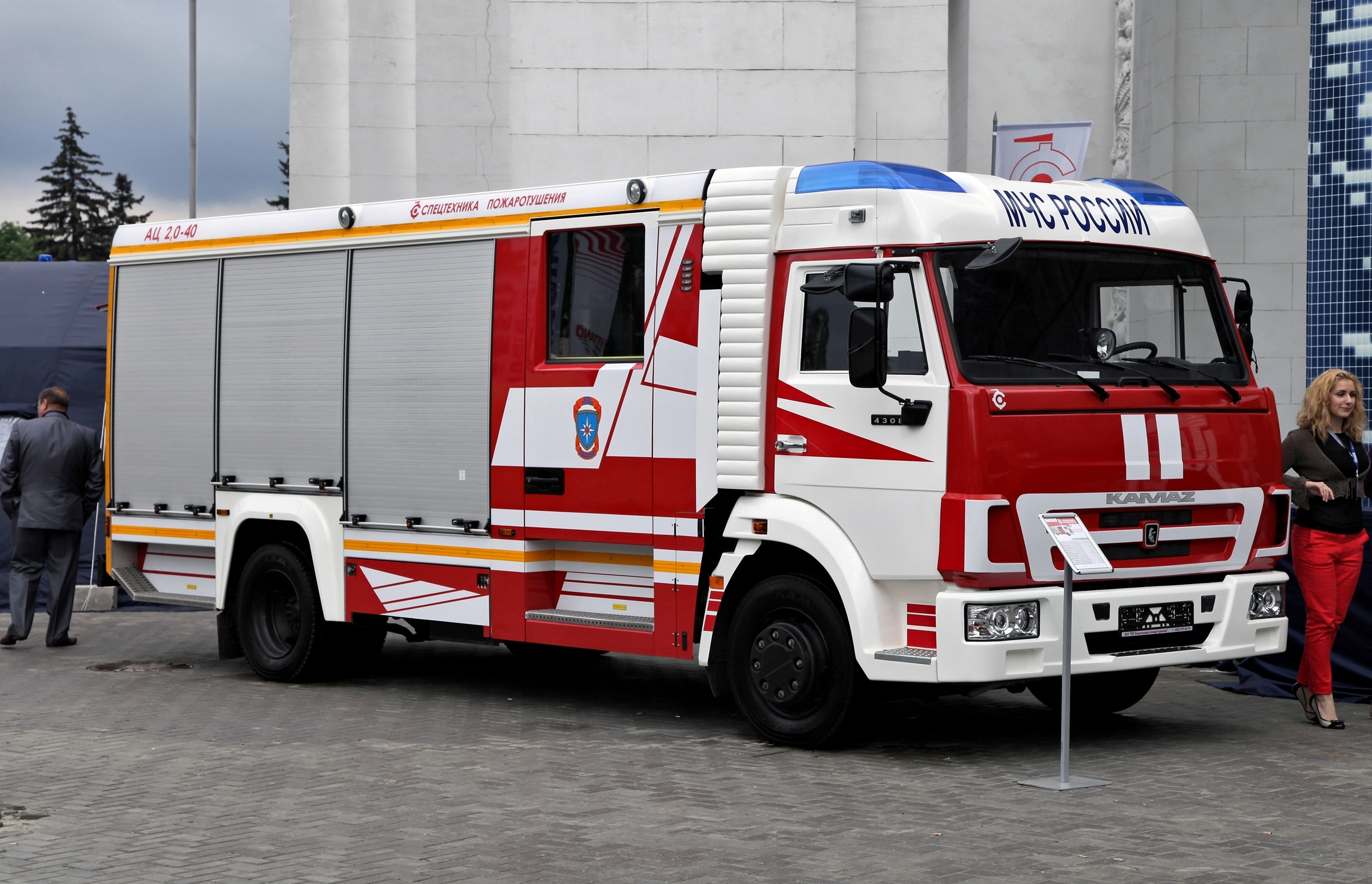 Fire fighting vehicle AC-2,0-40 on KAMAZ-4308 chassis at ISSE-2012.